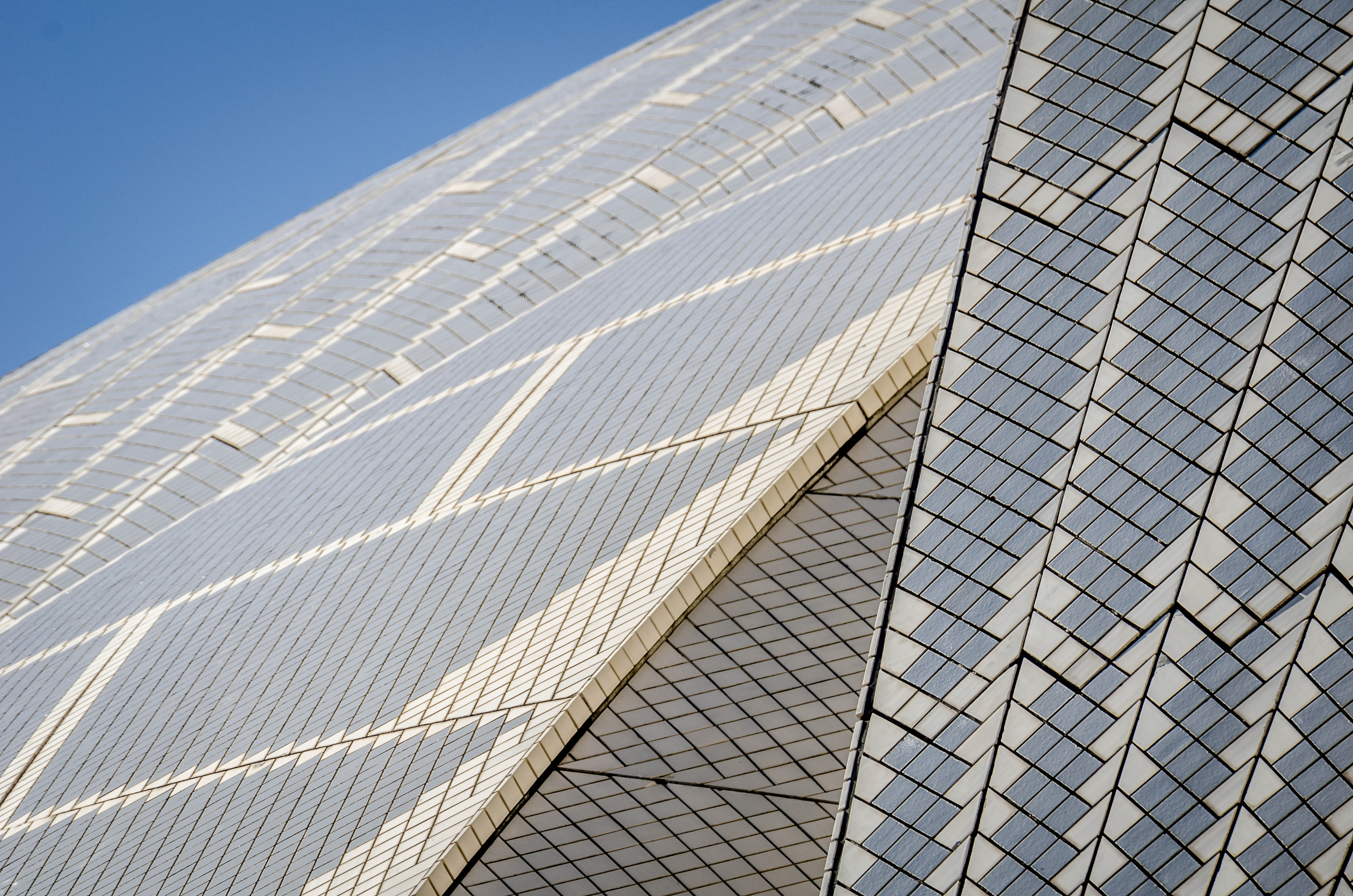 Ceramic Tile Pattern: Sydney Opera House